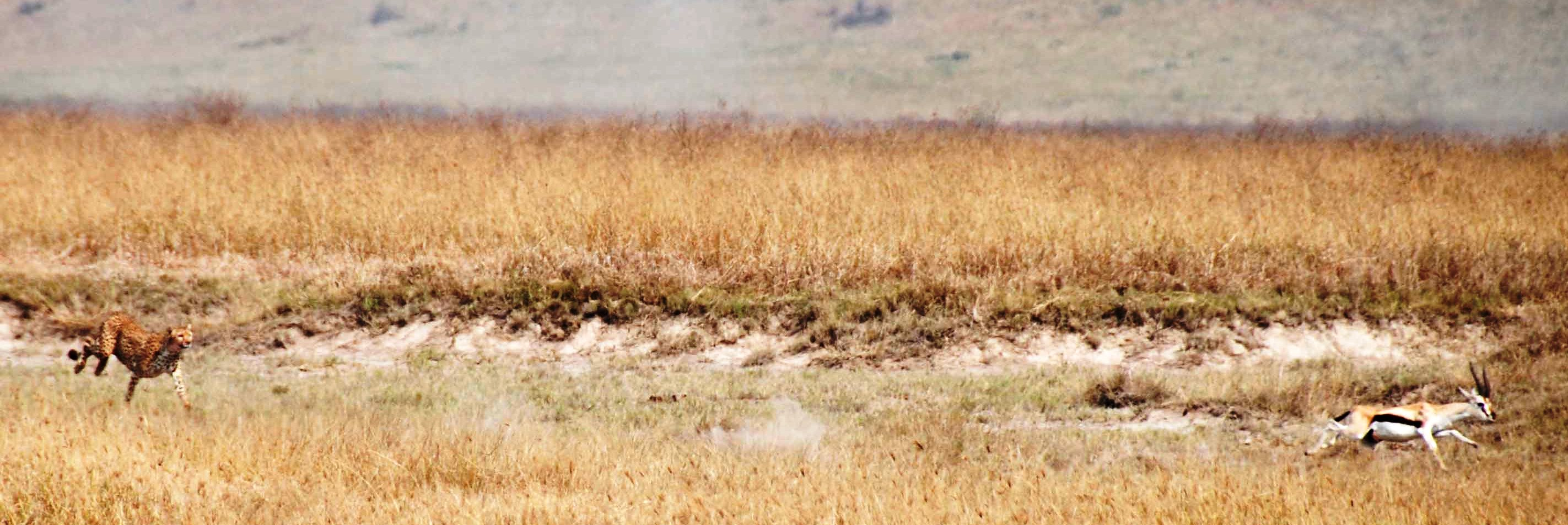 Cheetah (Acinonyx jubatus) in pursuit of a Thompson's gazelle (Gazella thomsonii ). Ngorongoro Crater, Tanzania. Photo by Lee R. Berger. The cheetah uses its black and yellow fur to ambush its prey.